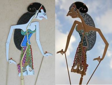 Putri Munigarim, Wayang Kulit figure from the epos Serat Menak Sasak